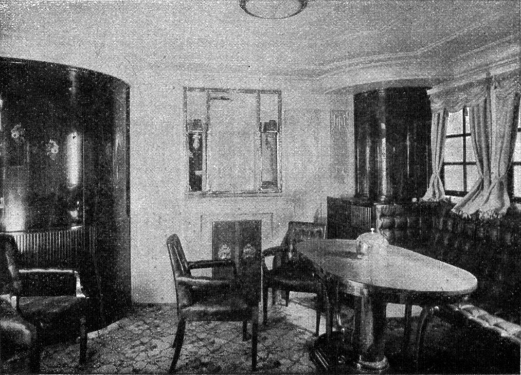 Cabin for 1st Class passengers of the George Washington luxury steamer, built by the Norddeutsche Lloyd in 1909